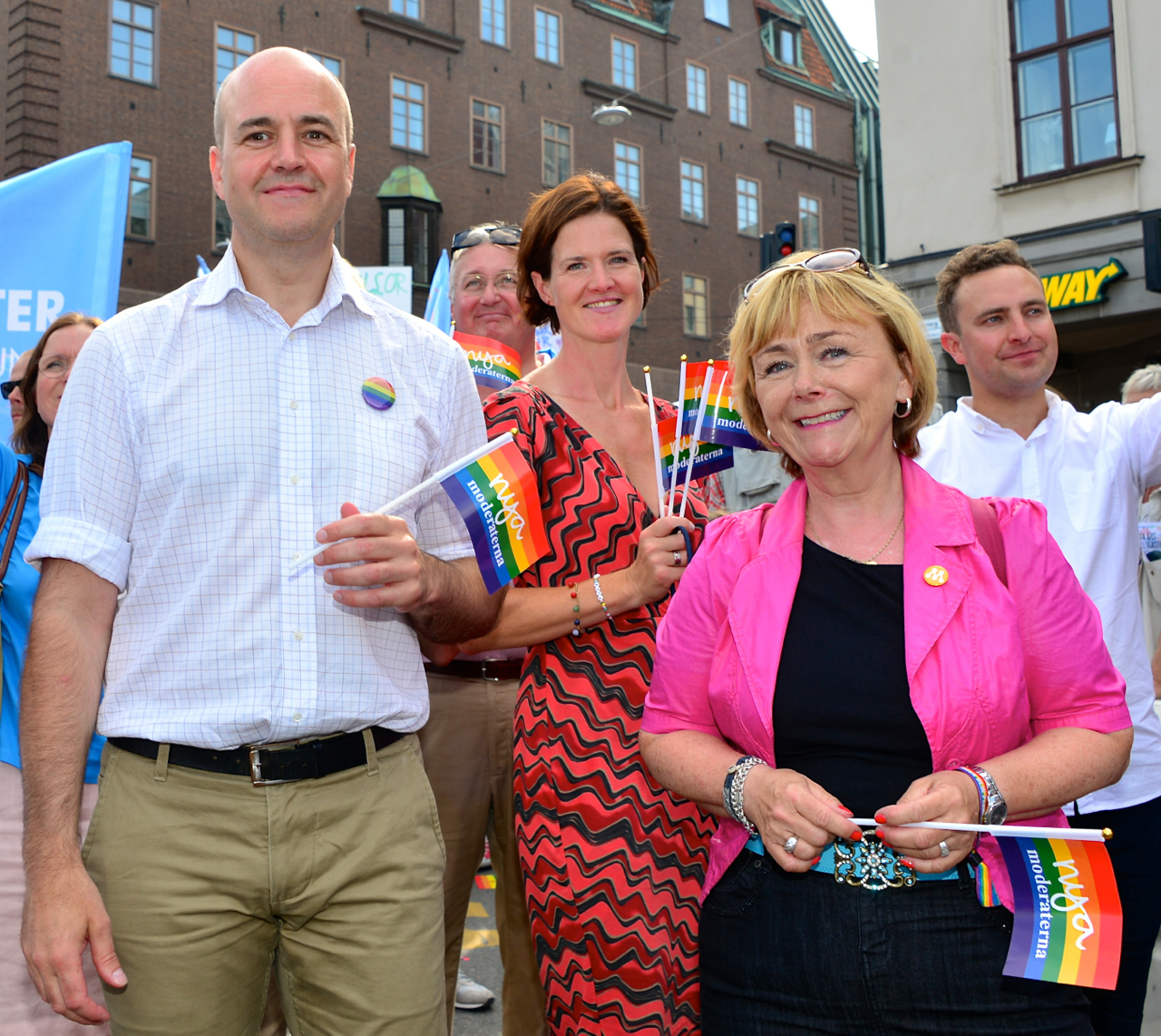 The Moderate Party in the final Pride Parade during Stockholm Pride in 2014. From left: Fredrik Reinfeldt (party leader), Anna Kinberg Batra, Beatrice Ask, Tomas Tobé.